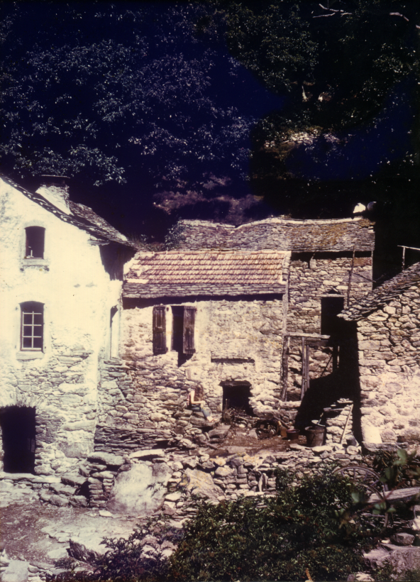 Former schoolhouse in Bardou (auberge/hostel, left)